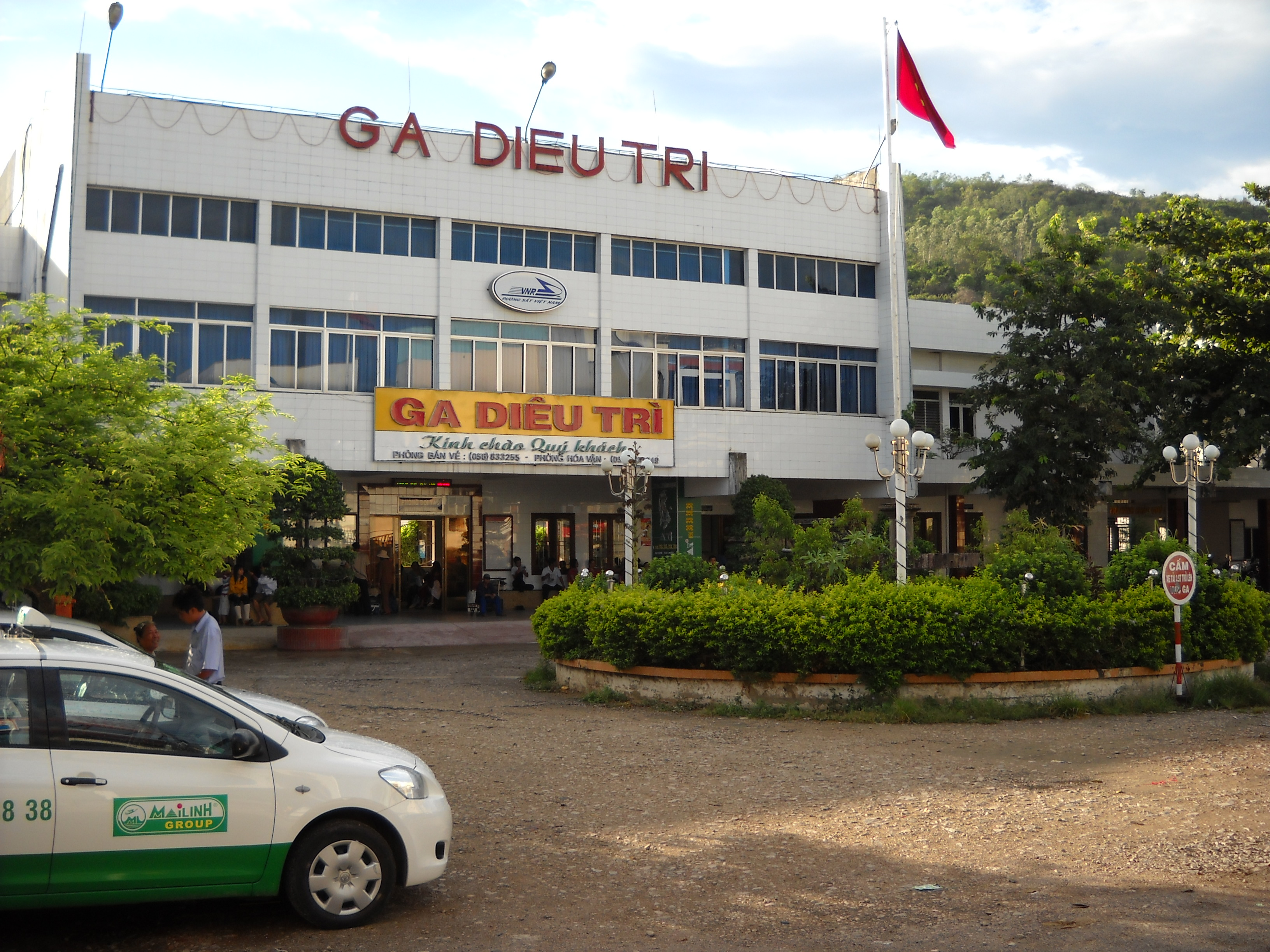 The train station at Dieu Tri, Binh Dinh Province, a junction on the North-South Railway that serves the city of Quy Nhon.